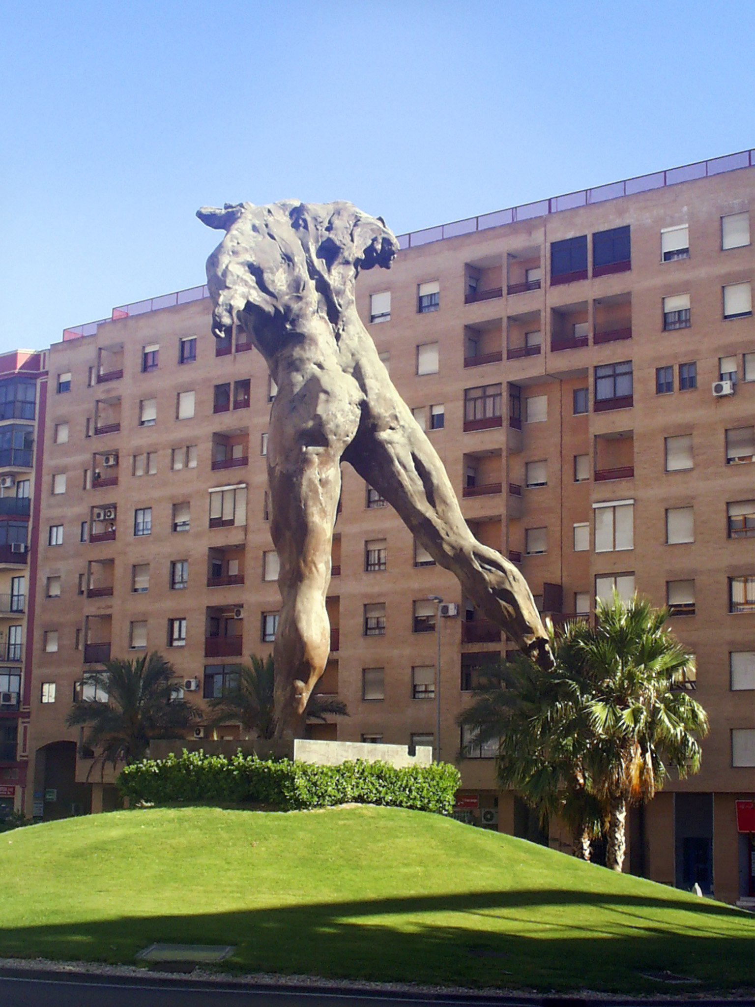 Minotauro, sculputor is Victor Ochoa. This sculpture is placed on Jerez, Andalusia, Spain. The sculpture represents the Minotaur after her fighting with Theseus, defeated attempts to a desperate escape to the island of Crete. The giant sculpture is oriented to this place.